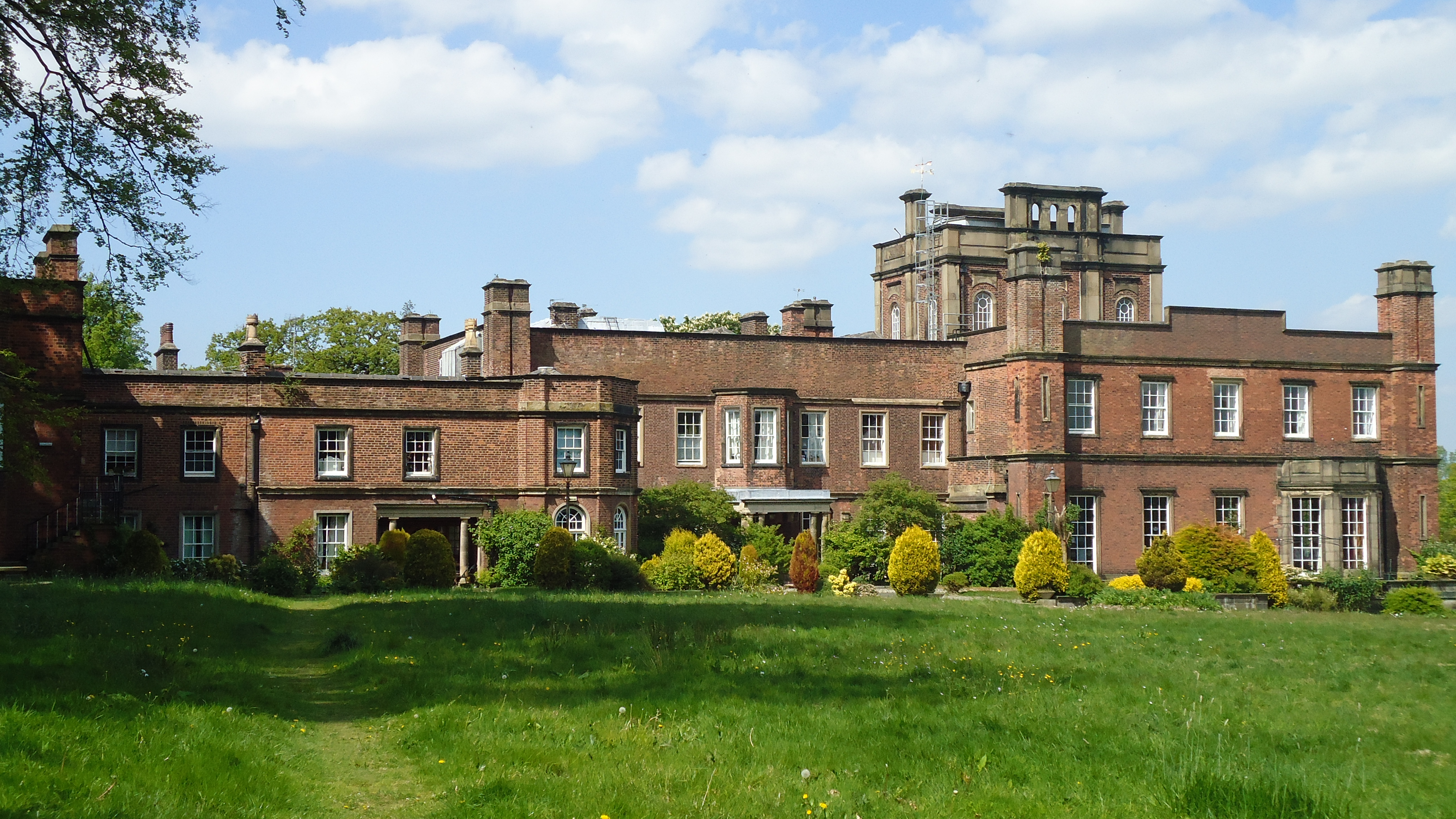 Cuerden Hall: Southern Facade